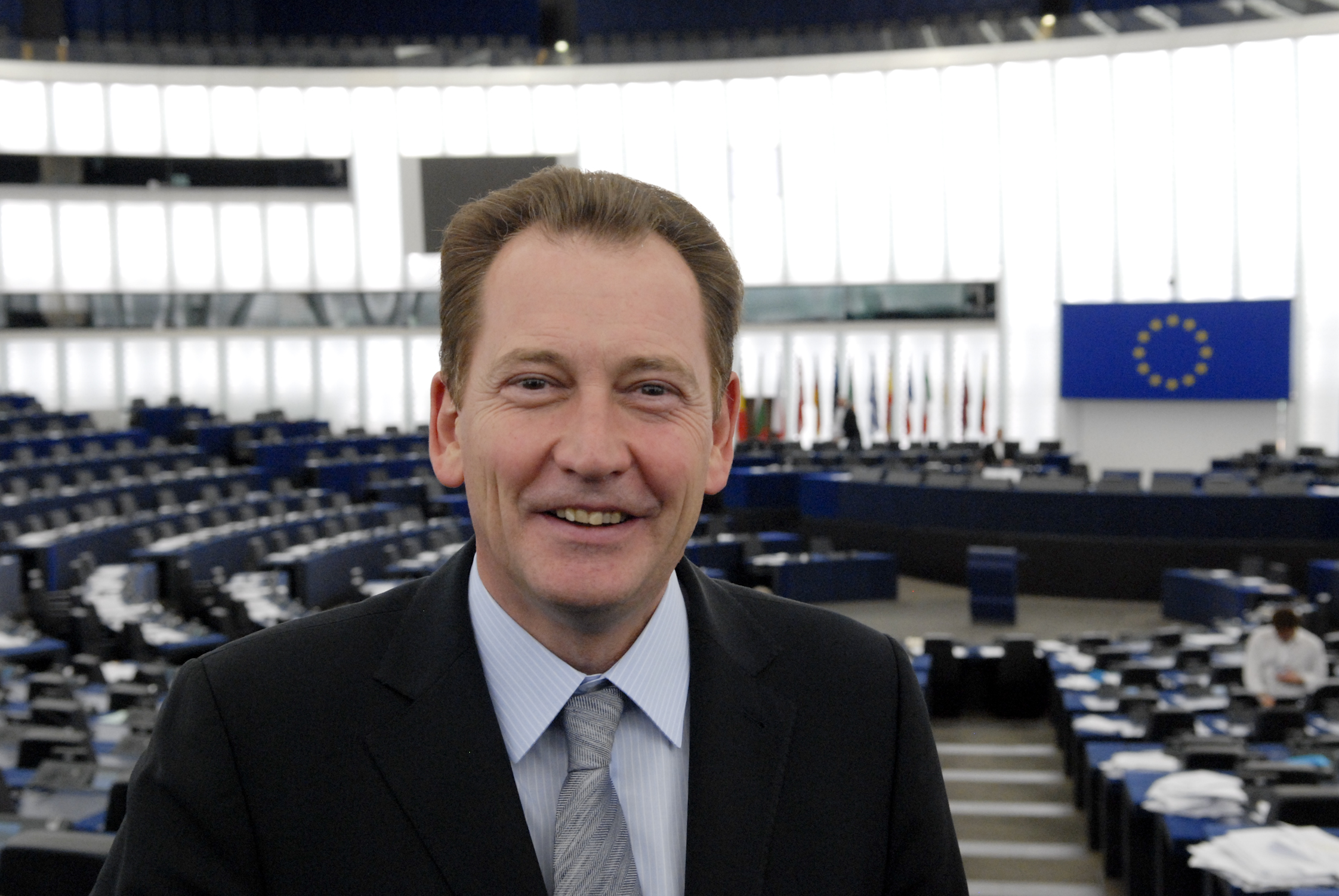 Graham Watson MEP in the European Parliament, Strasbourg, 22 October 2009